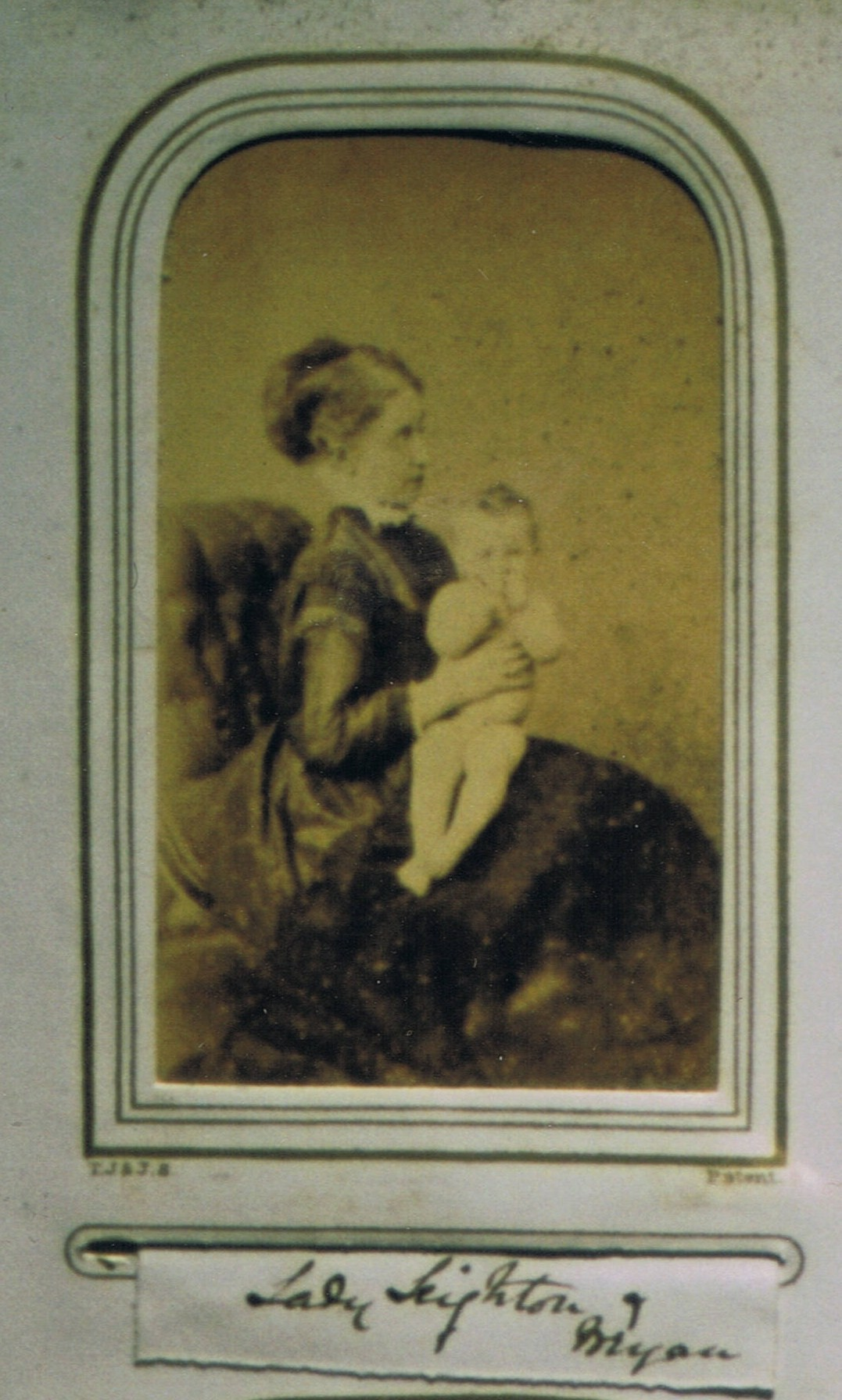 Scan (by meRodolph (talk) 00:37, 8 August 2013 (UTC)) of a photo (by meRodolph (talk) 00:37, 8 August 2013 (UTC)) of an 1860s photo of Lady Leighton & her son Bryan, from an album made by Emily Fane De Salis circa 1870.